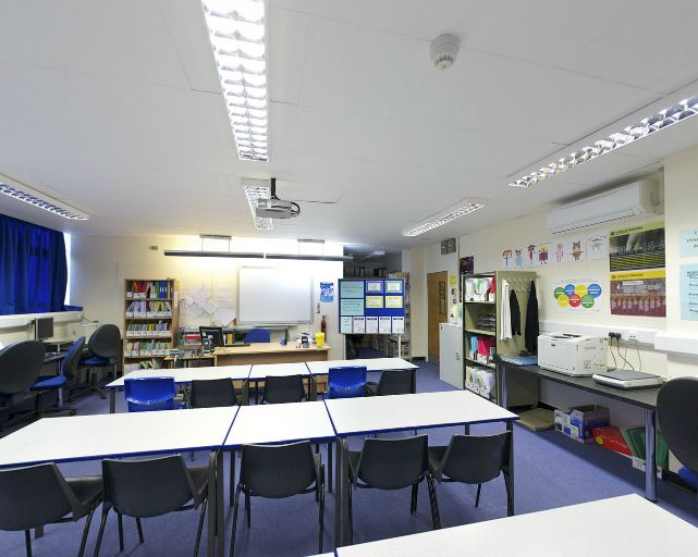 Boclair Interior